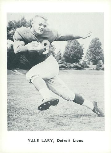 A promotional image of Detroit Lions player Yale Lary.